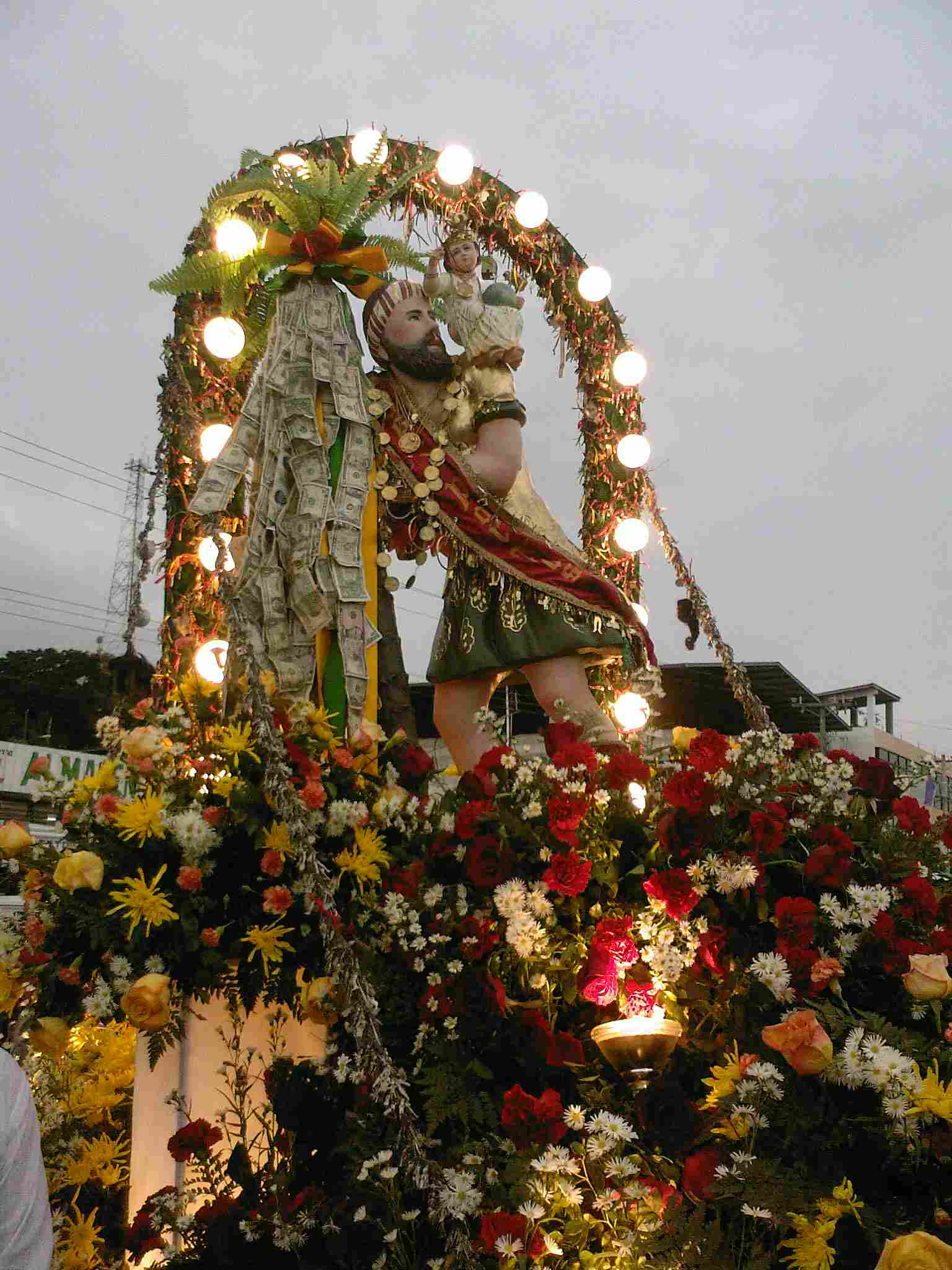 Saint Cristobal of Chepo in Panamá